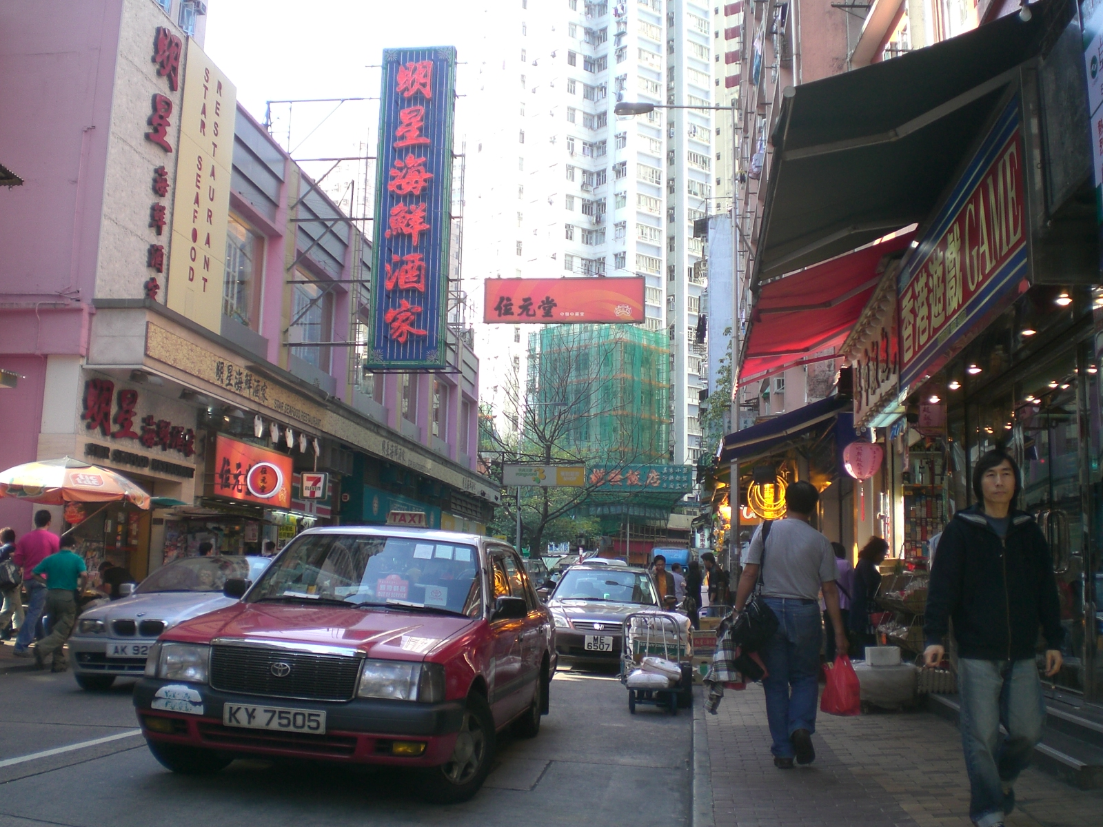 Star Seafood Restaurant, Shau Kei Wan Main Street East, Hong Kong.